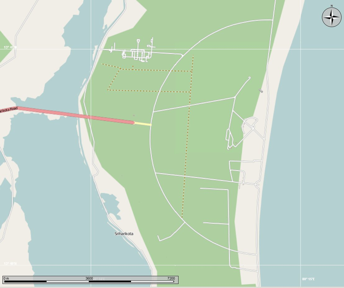 The Satish Dhawan Space Centre. Open Street Map of the complex, made using the Marble program, with cropping done in GIMP.